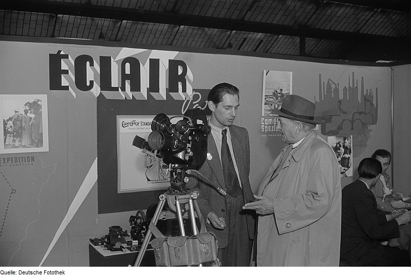 Original image description from the Deutsche Fotothek